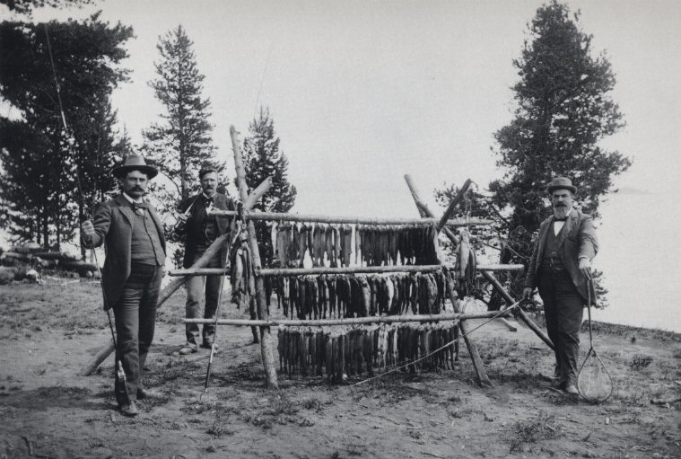 Anglers at West Thumb, Yellowstone Lake, Yellowstone National Park, Wyoming, 1897